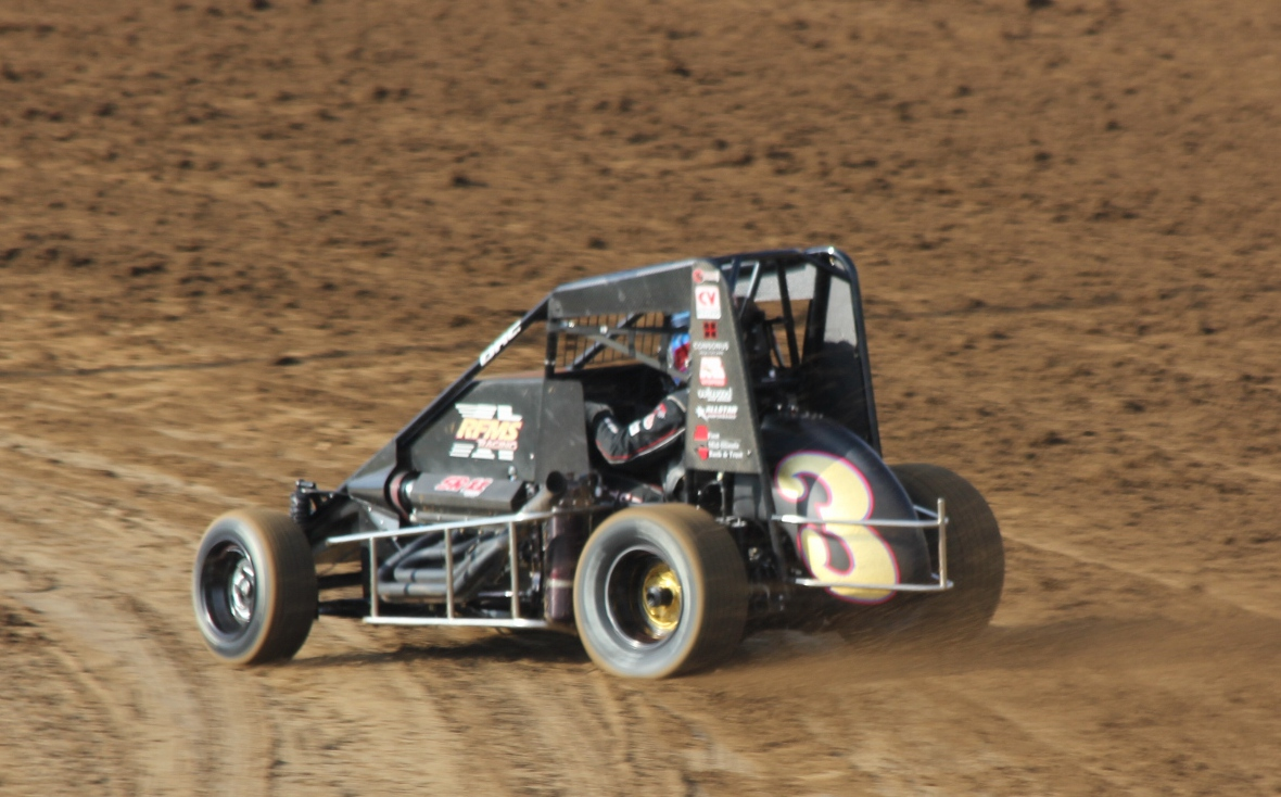 The USAC Midget of Chris Windom racing at Angell Park Speedway. He finished fourth in the feature.